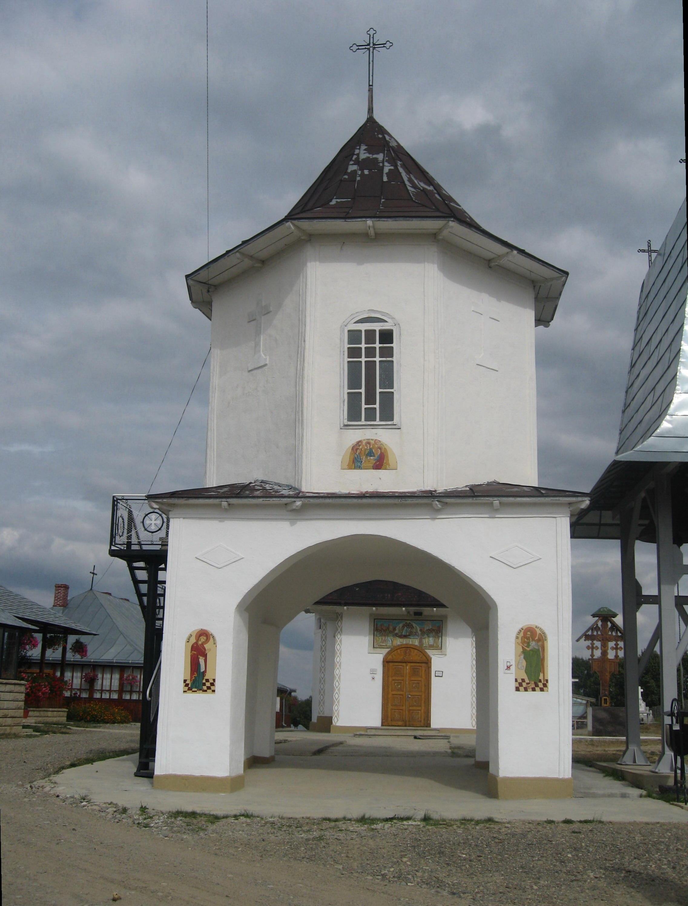 Mănăstirea Zosin 02